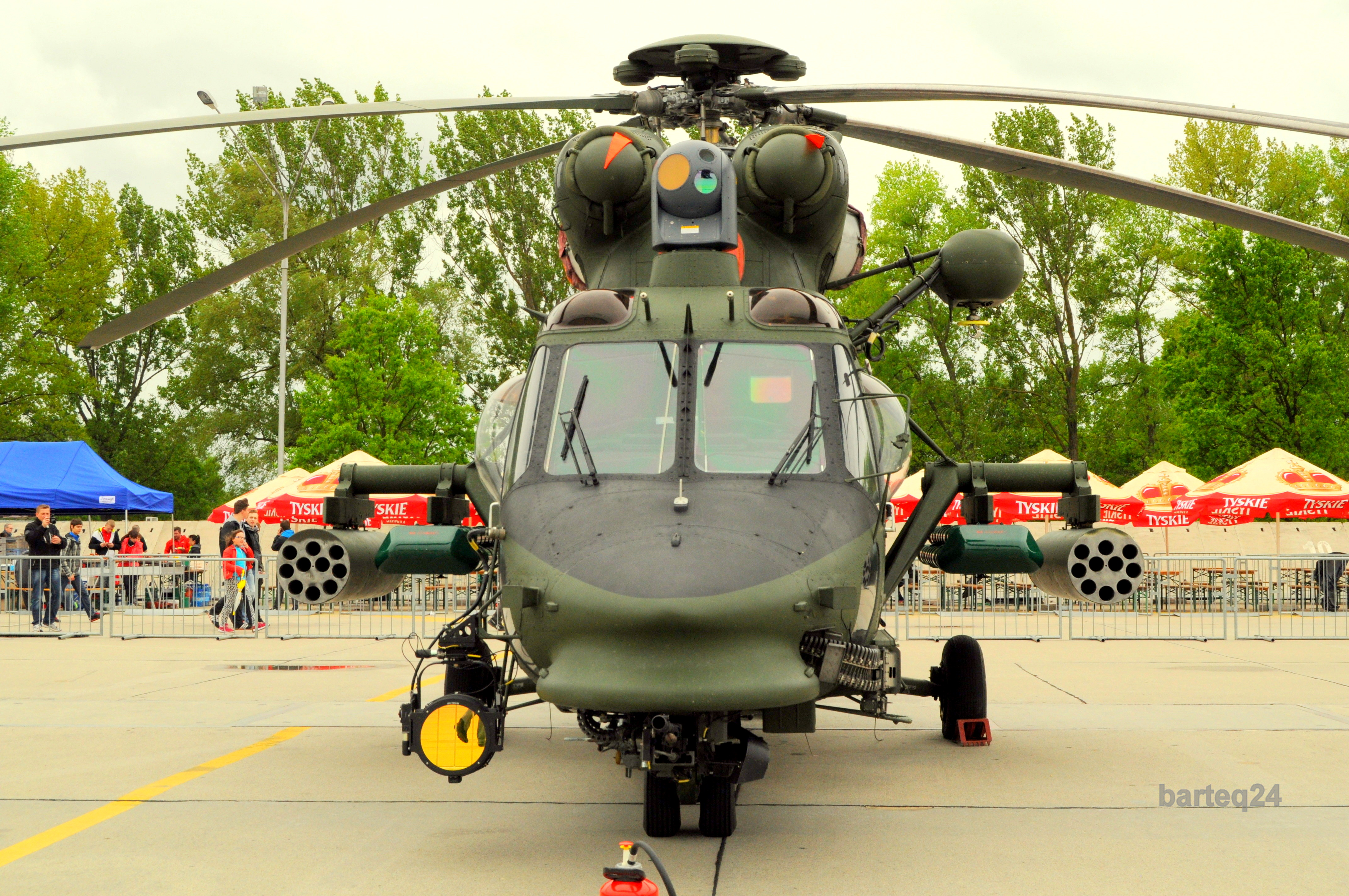 tactical number 0819, c/n 360819 from 56 Air Base Inowrocław